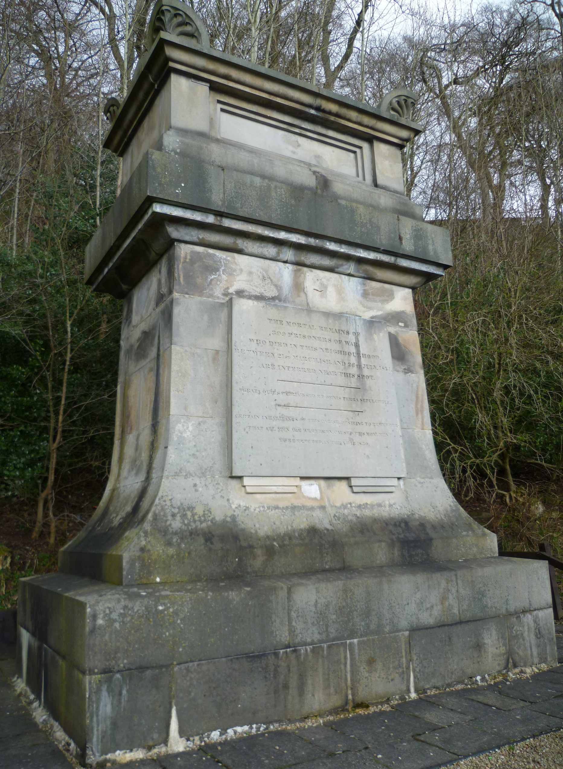 A substantial monument built in 1830 to mark and commemorate the burial place of 309 French prisoners of war who died in captivity at Penicuik between 1811 and 1814. It was paid for by Alexander Cowan, owner of the Valleyfield Mill which was used as one of the 'prisoner depots' of the Napoleonic Wars and stood near the spot where the monument stands. A local watchmaker contributed five shillings, allowing the inscription to state that it had been erected by "certain inhabitants of this parish". Cowan was responsible for the inscribed sentiment that enjoins us to "Remember That All Men Are Brethren".